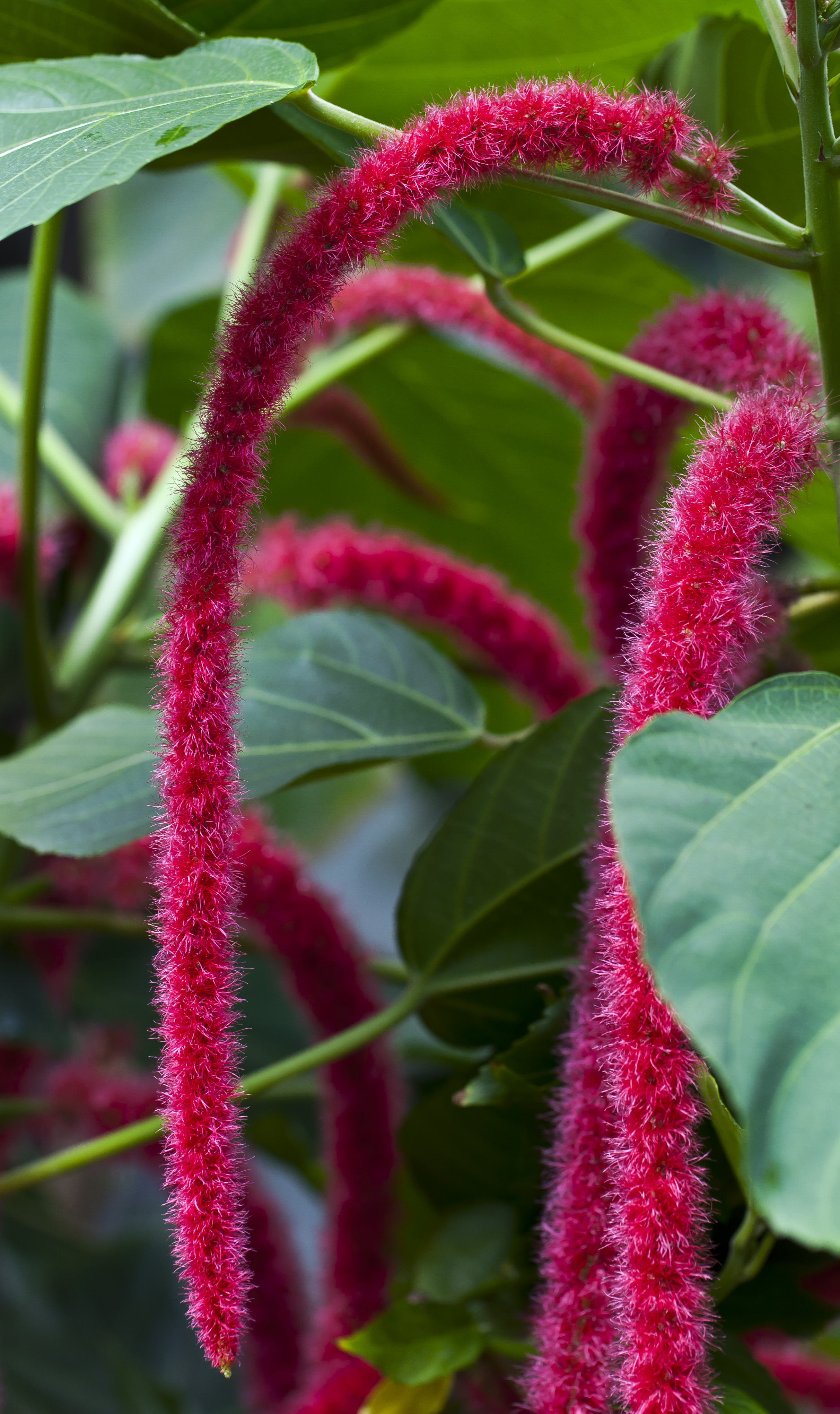 Chenille plant (Acalypha hispida), Tallinn Botanic Garden, Estonia